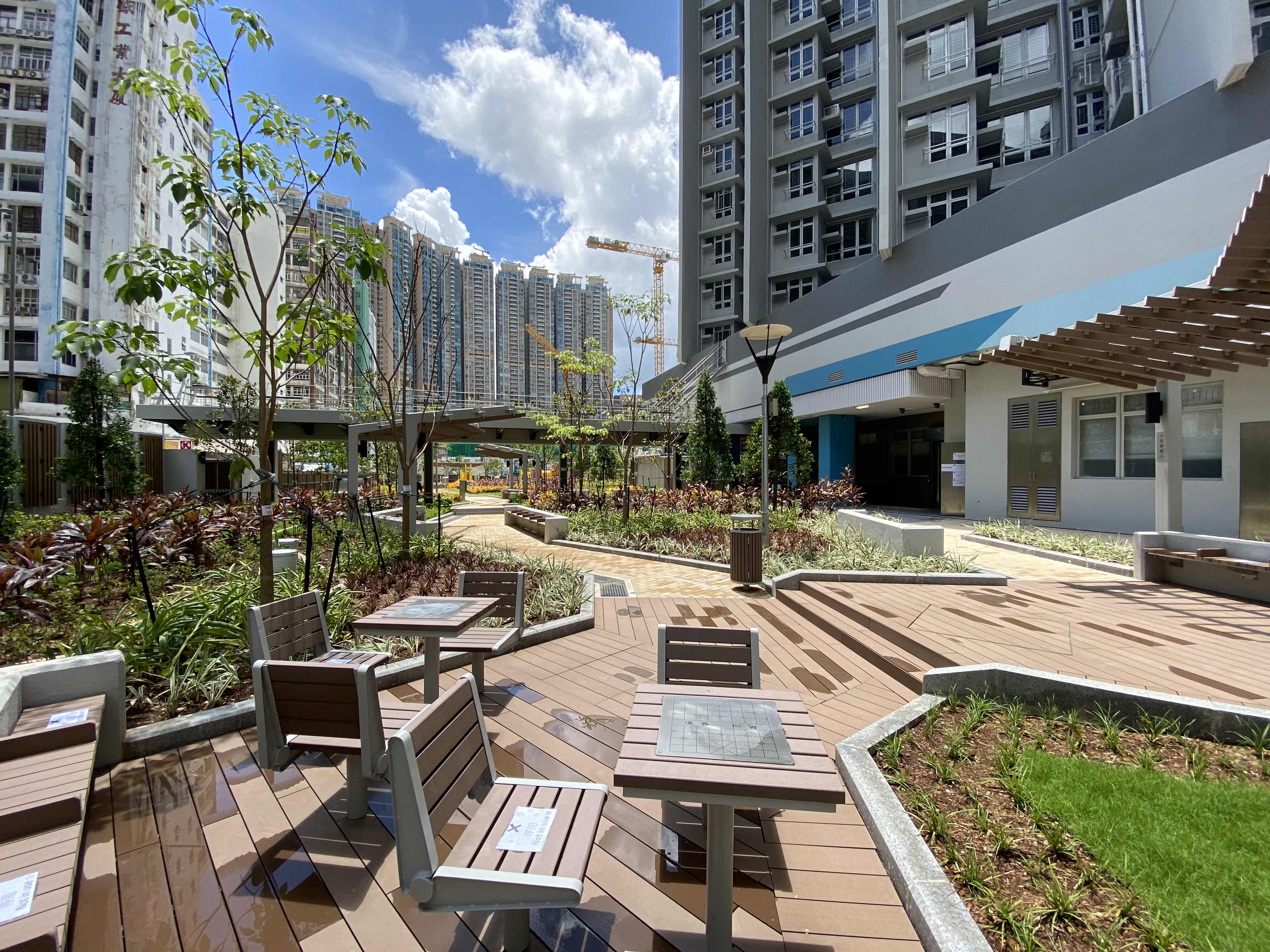 Yuk Wo Court Landscape Area